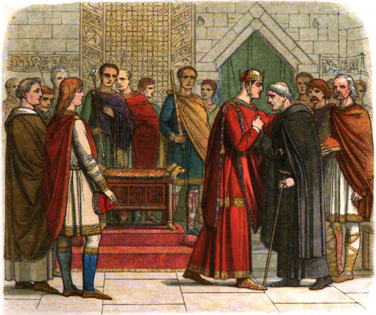 William the Conqueror pays court to the English leaders.